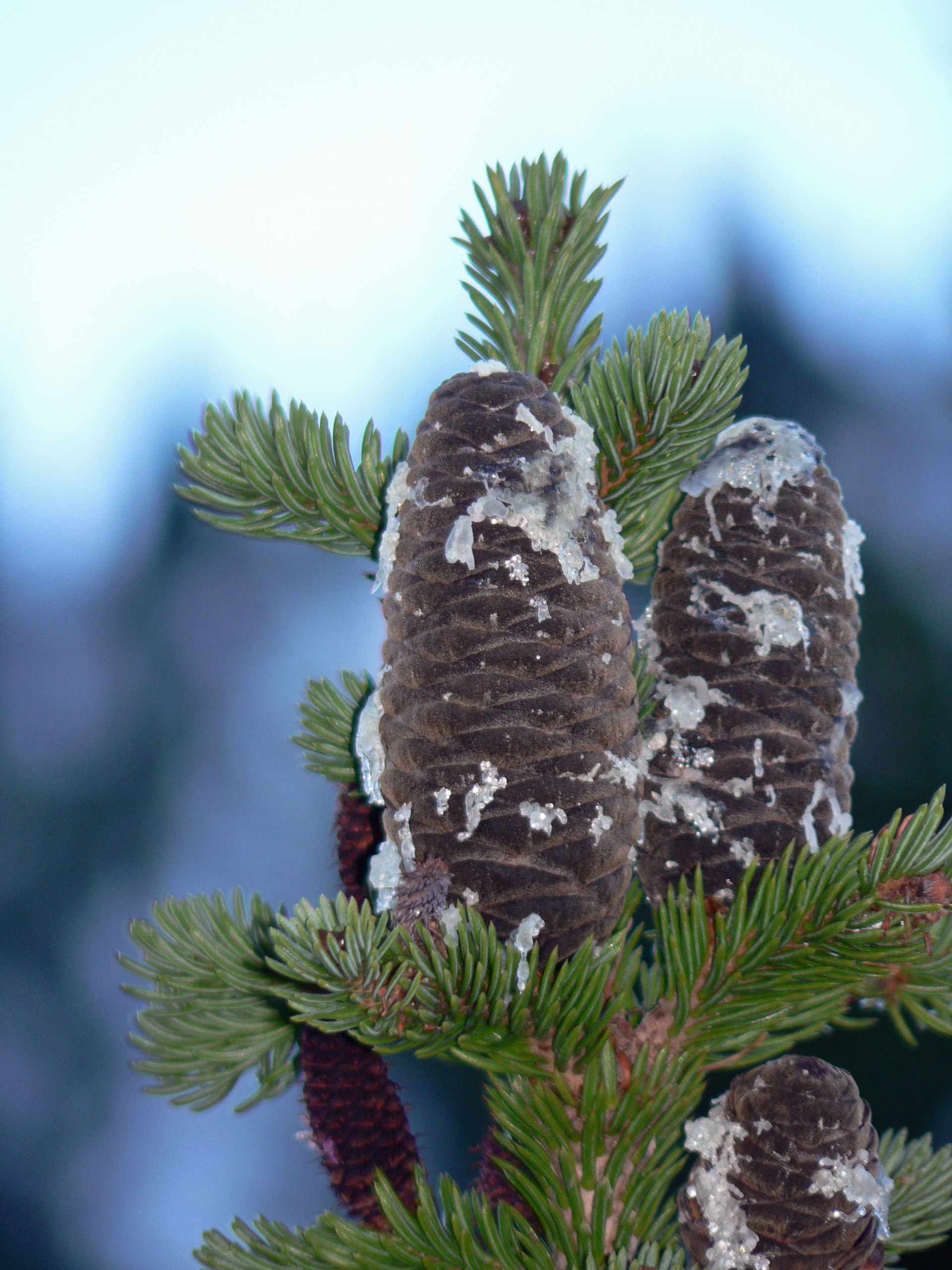 Subalpine Fir